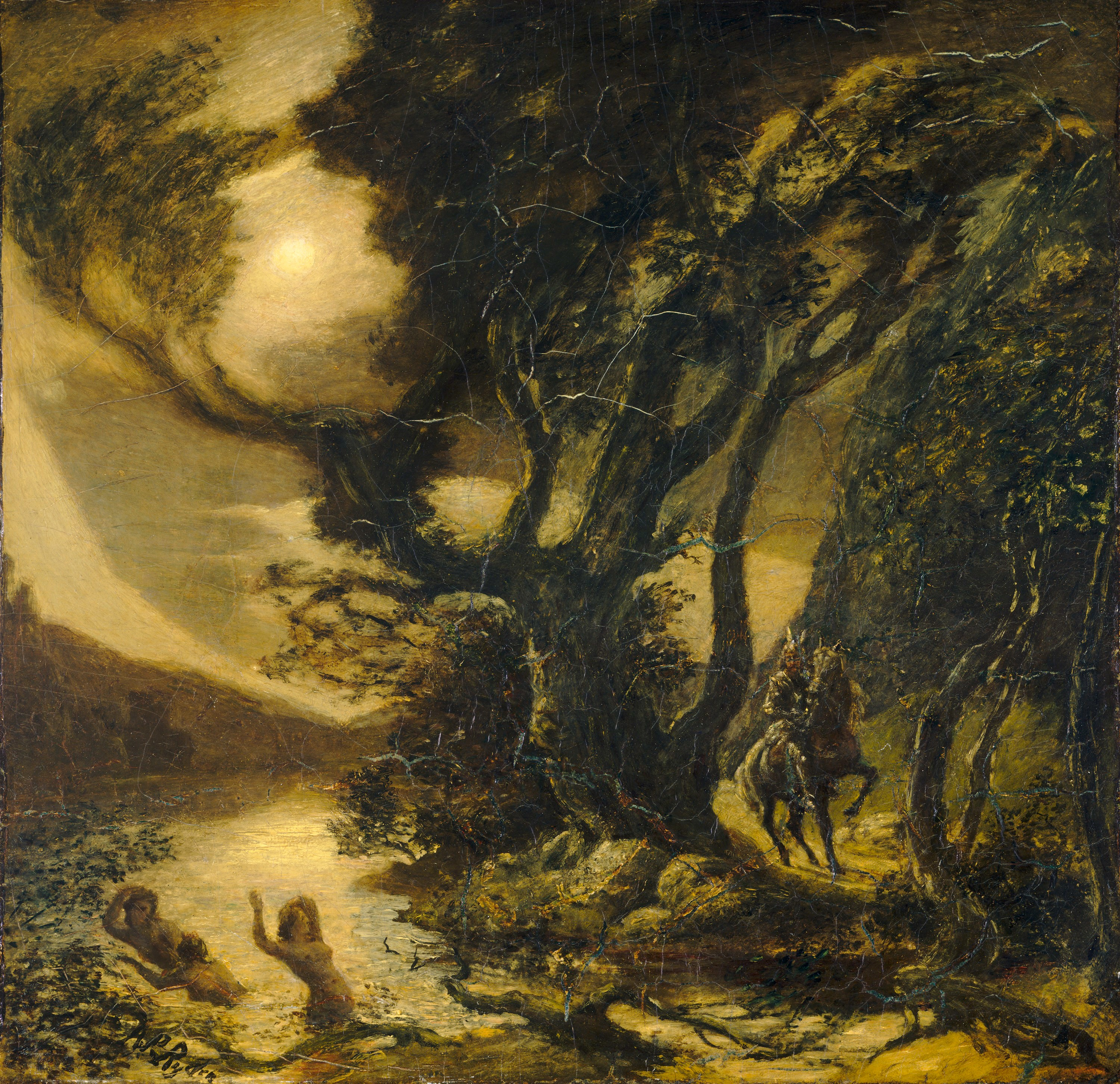 Siegfried, in his armor, rides his horse to the edge of a stream. In the water are three nude women. Between them and Siegfried is a large tree on the bank; the tree's branches spreads to the sky, covering the top of the painting.